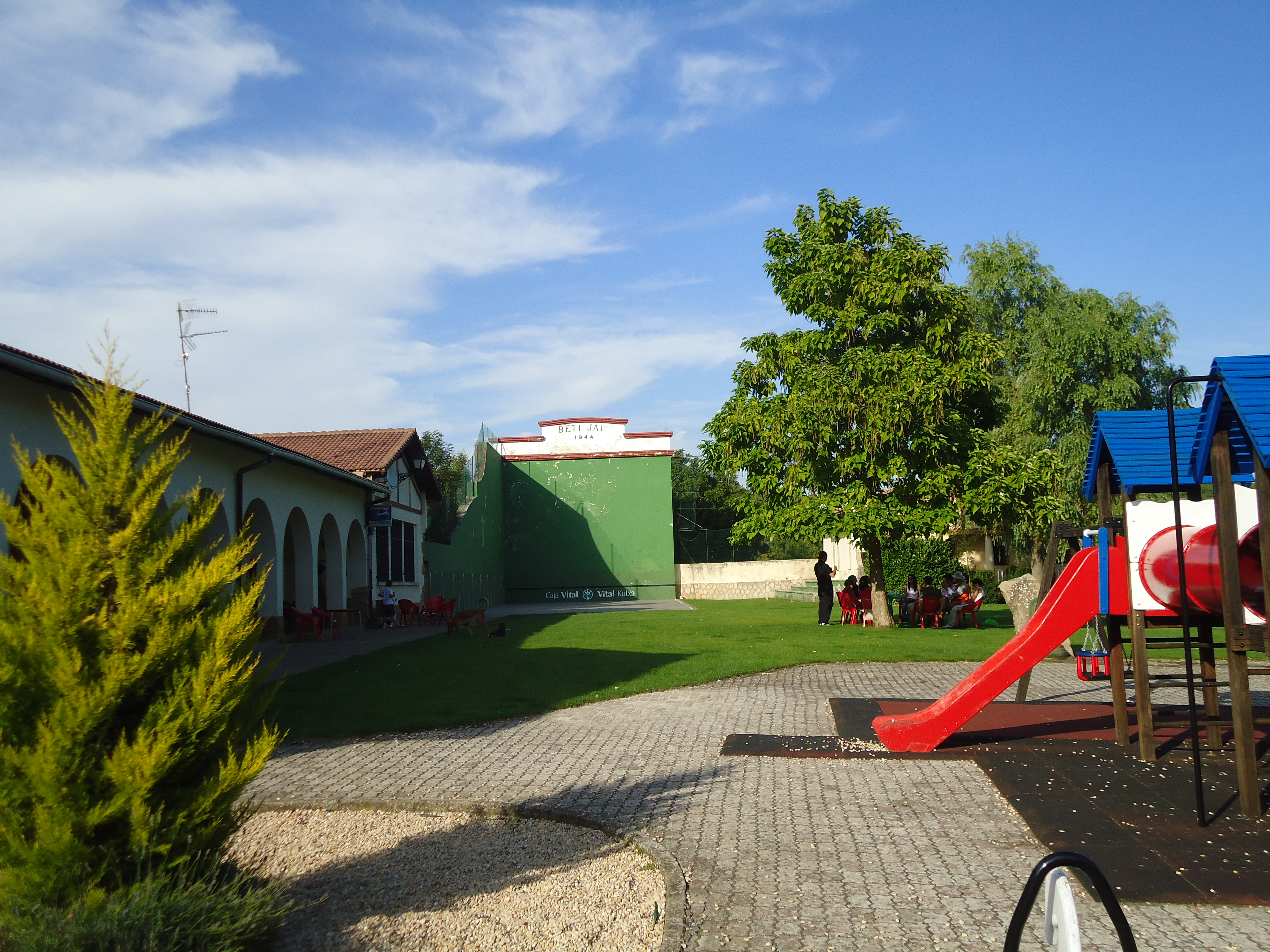 Frontoia in Lagran